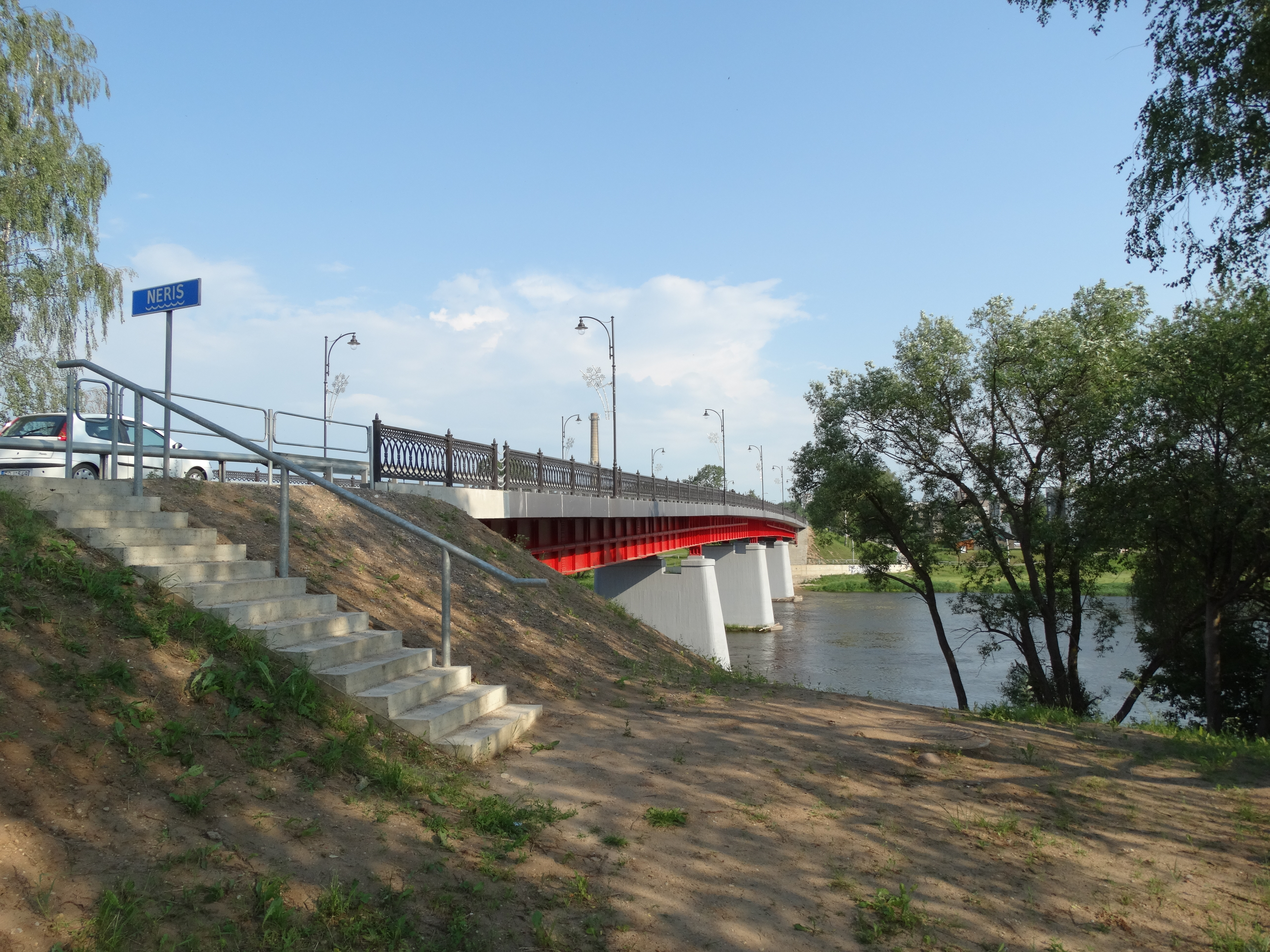 Motor-road bridge in Jonava, Lithuania